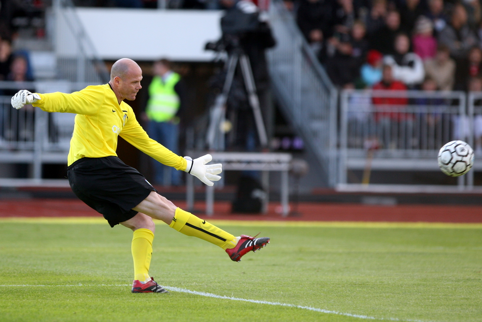 Brad Friedel of Aston Villa